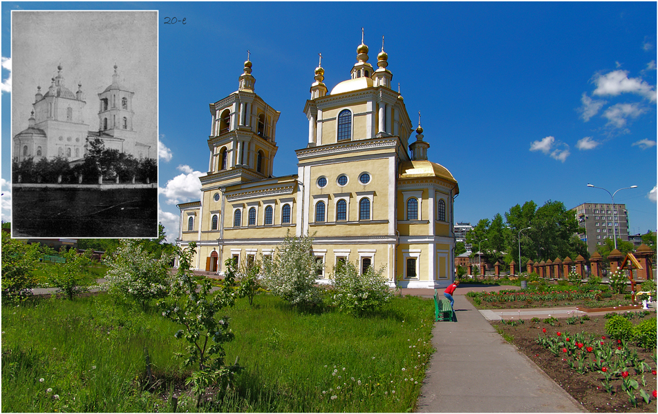 Spaso-Preobrazhensky (Transfiguration) Cathedral (Novokuznetsk, Kemerovo region, Russia)